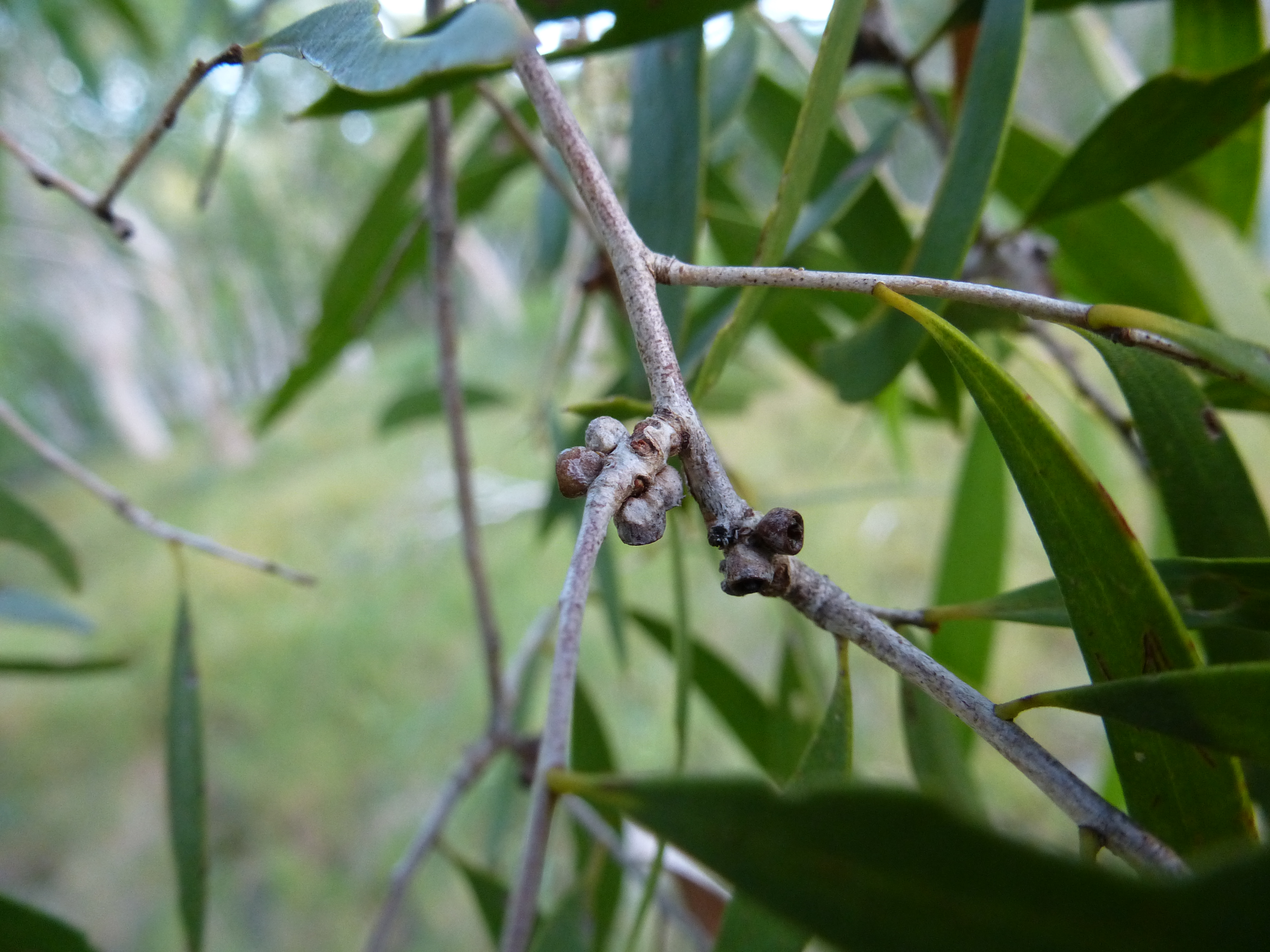 Melaleuca acacioides fruits